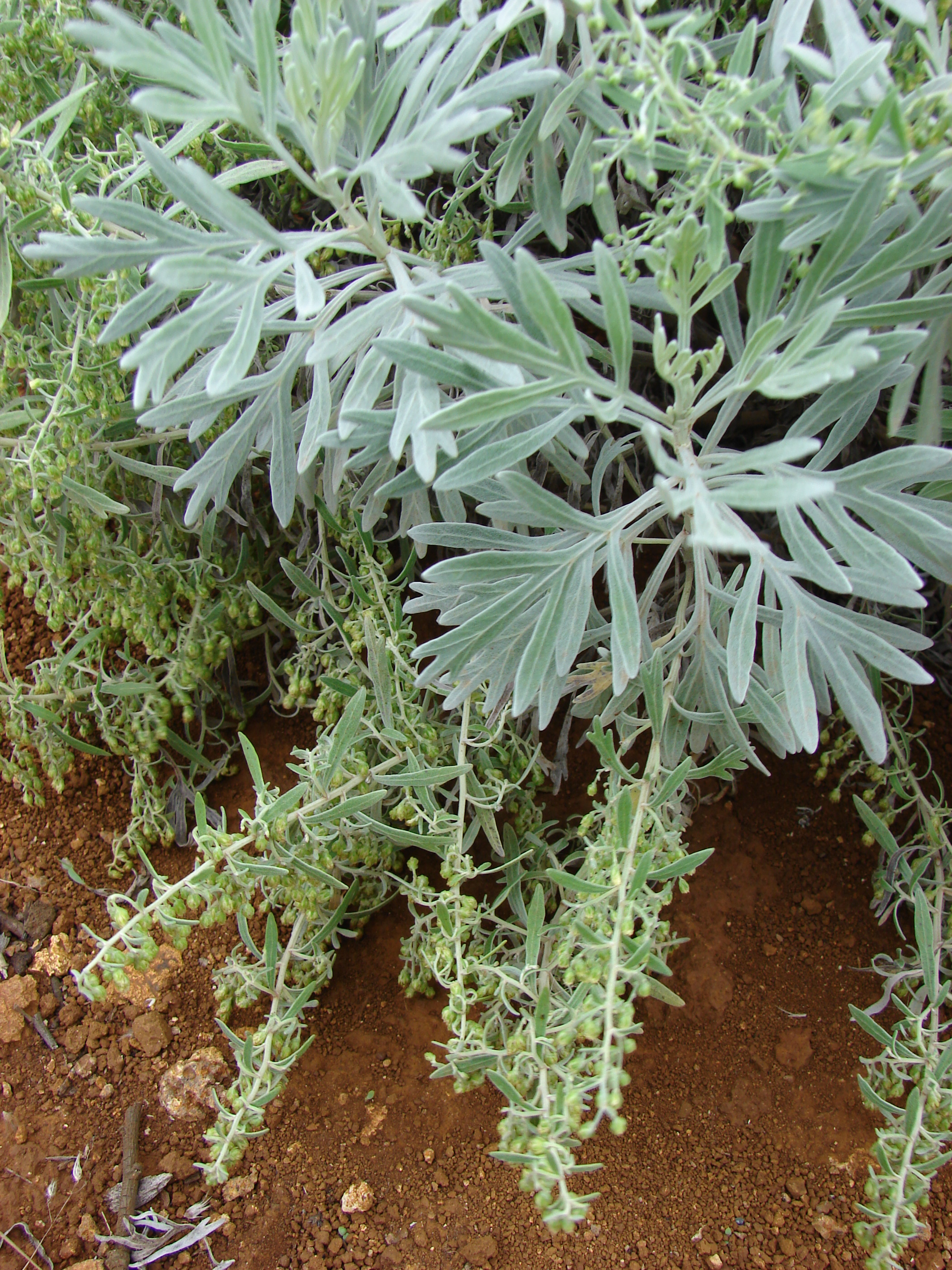 Artemisia australis (Ahinahina, hinahina, hinahina kuahiwi) Flowers and leaves at Uprange, Kahoolawe, Hawaii. December 30, 2008 #081230-0624 Image Use Policy